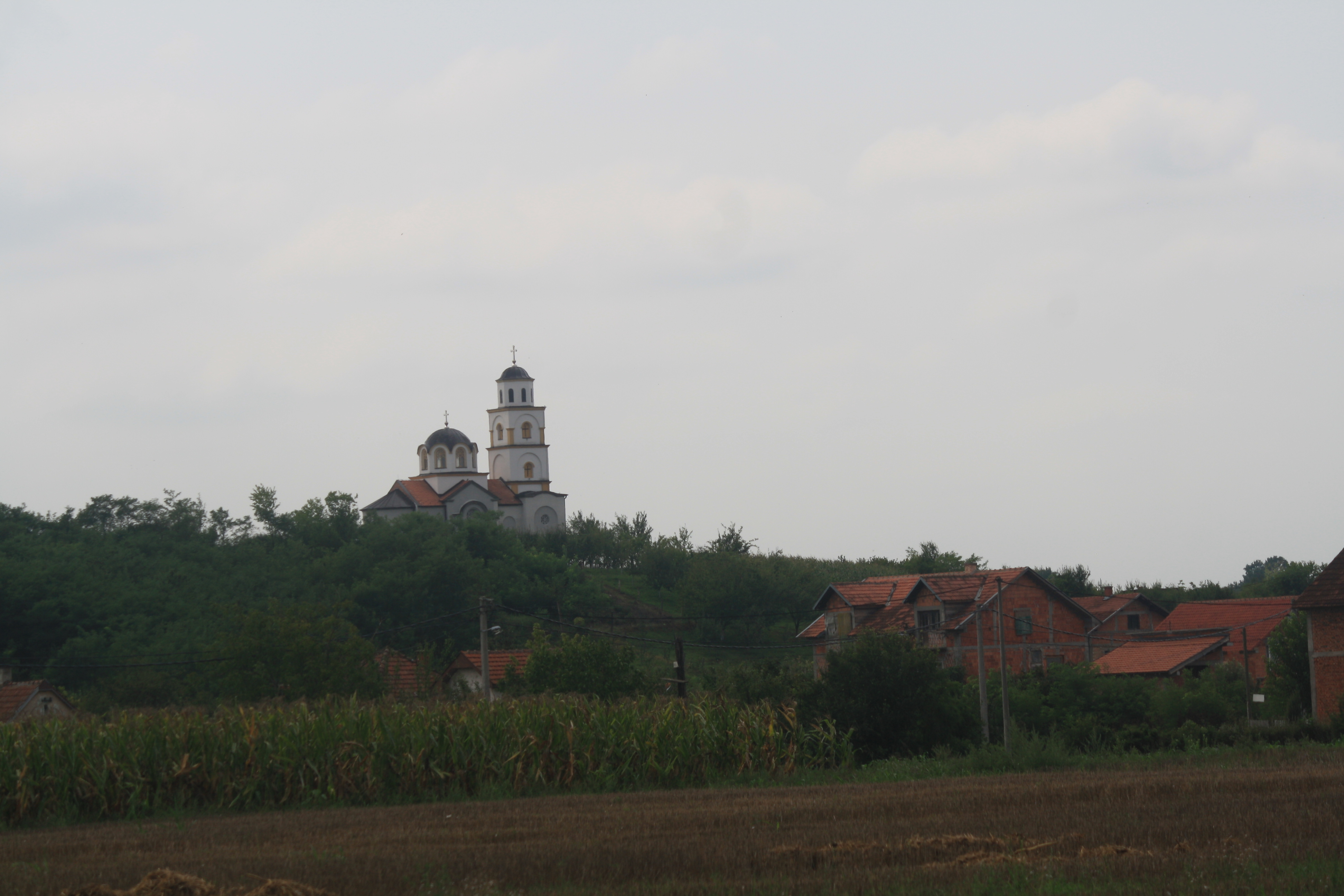 The cliffs of Mišar hill where battle of Mišar occured